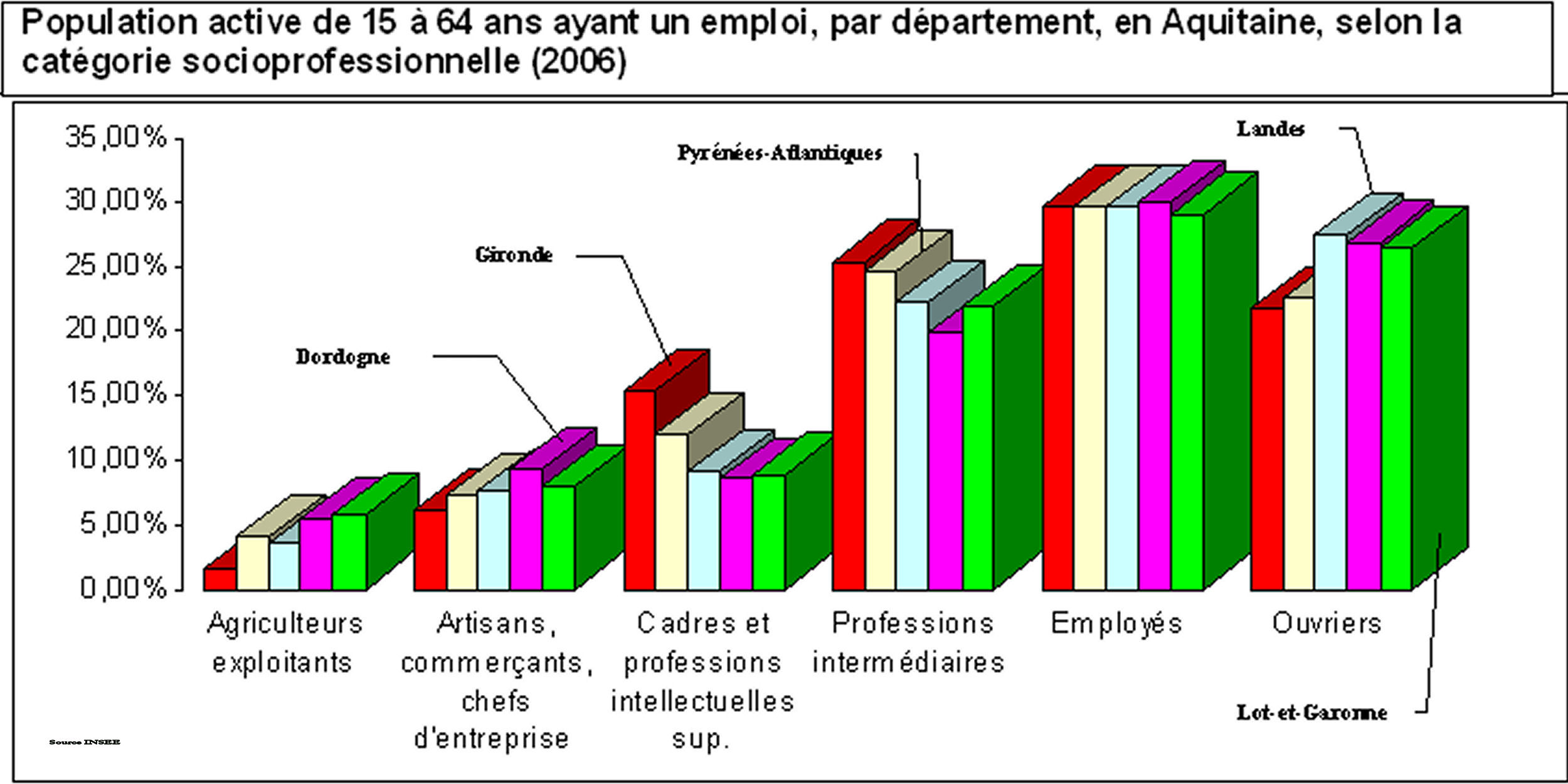 The workforce of Aquitaine by occupational categories in 2006